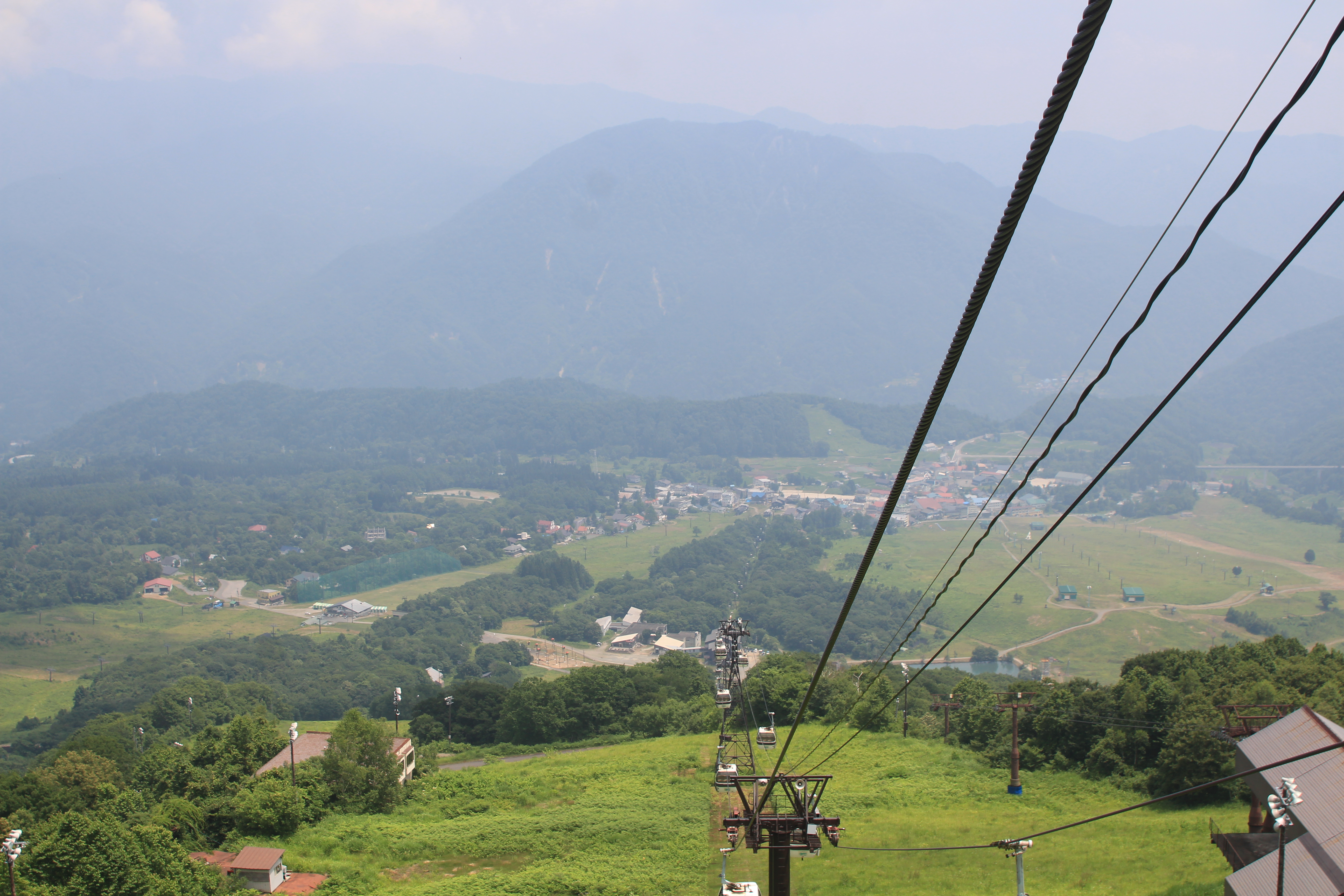 Tsugaike Gondola in Tsugaike-Kogen Ski Resort, Otari, Nagano Prefecture, Japan.